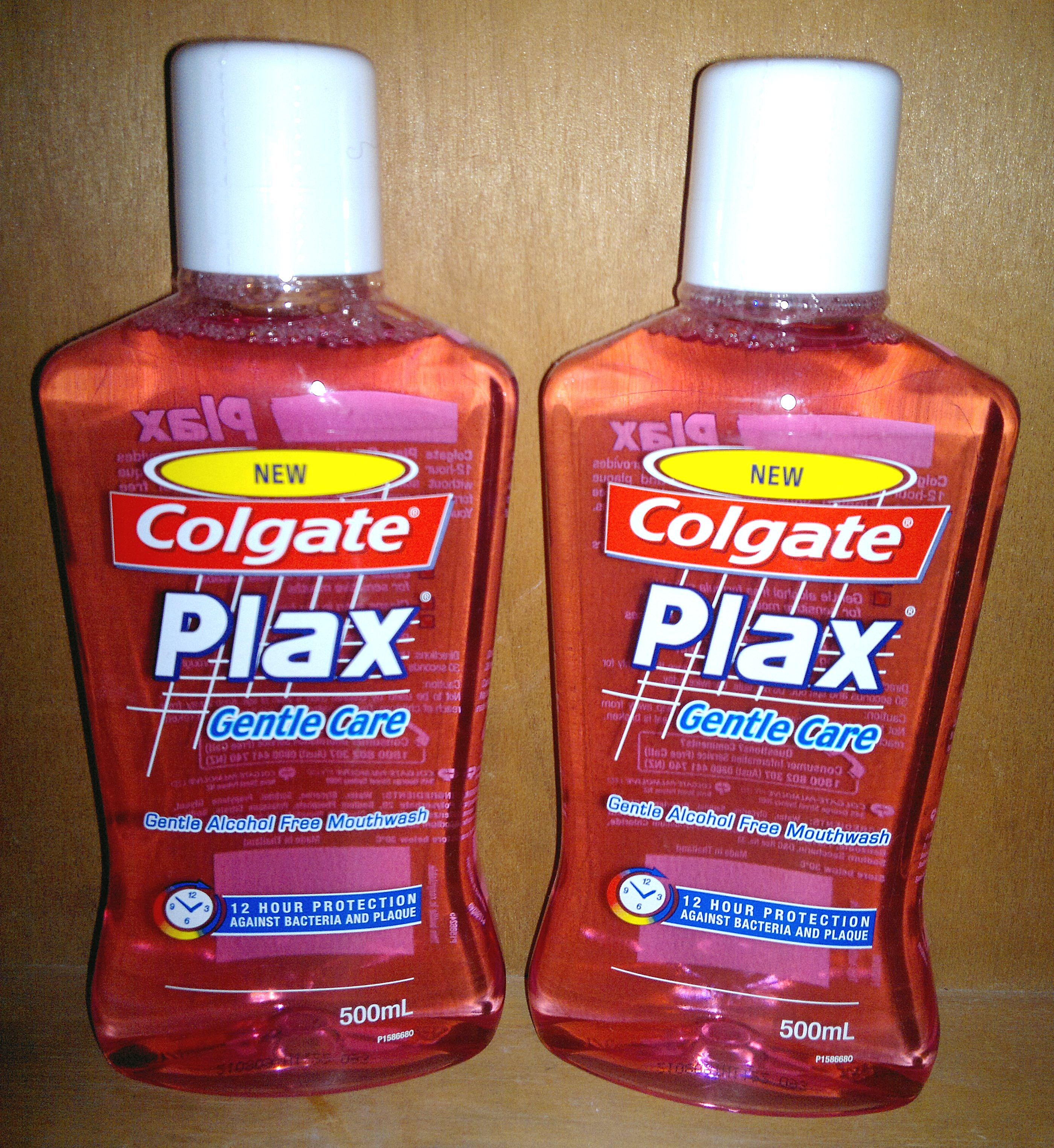 Colgate Plax Mouthwash Alcohol Free